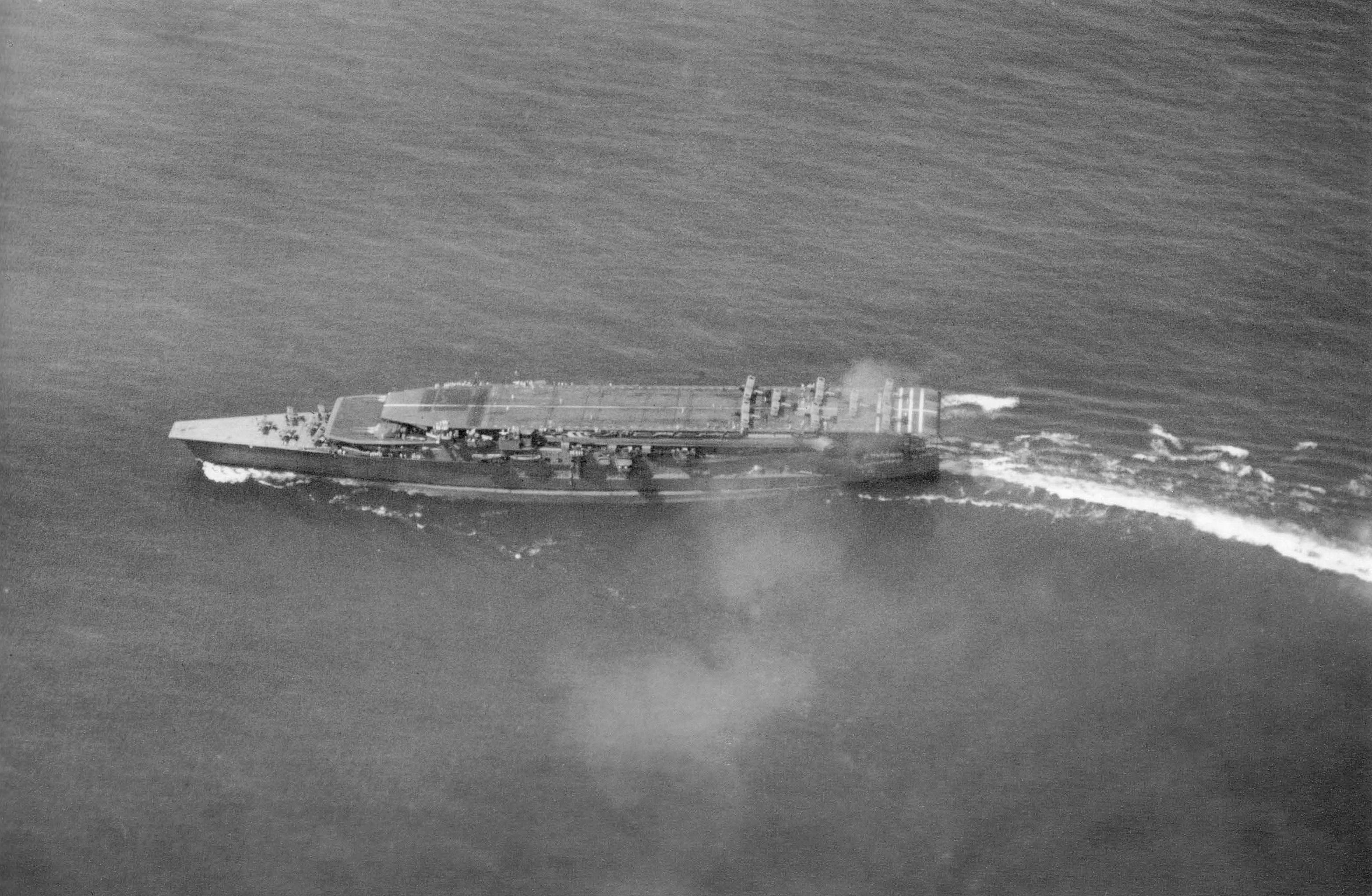 Imperial Japanese Navy aircraft carrier Kaga conducts air operations training. On the upper deck are Mitsubishi B1M Type 13 bomber aircraft and Nakajima A1N Type 3 fighters are on the lower deck.